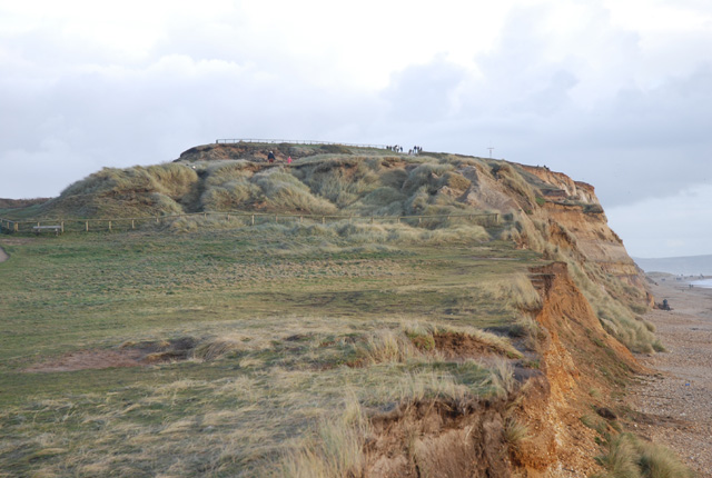 Hengistbury Head